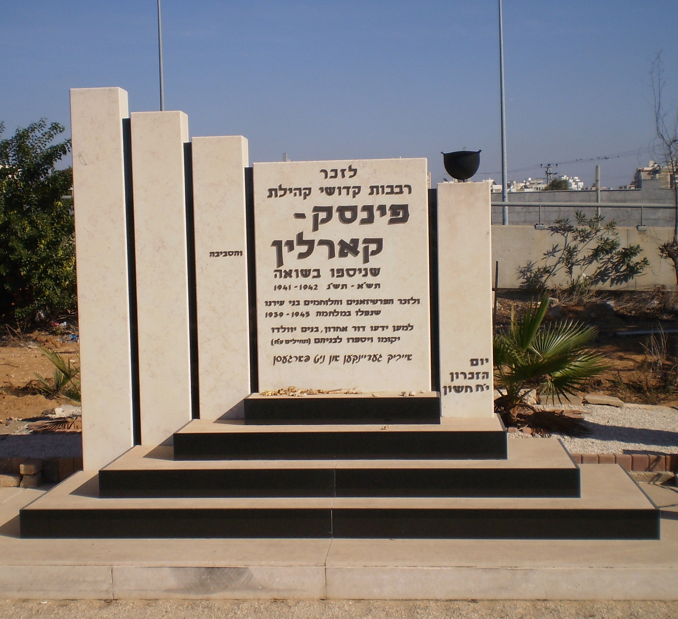 Pinsk-Karlin Jewery Holocaust memorial at Holon Cemetery